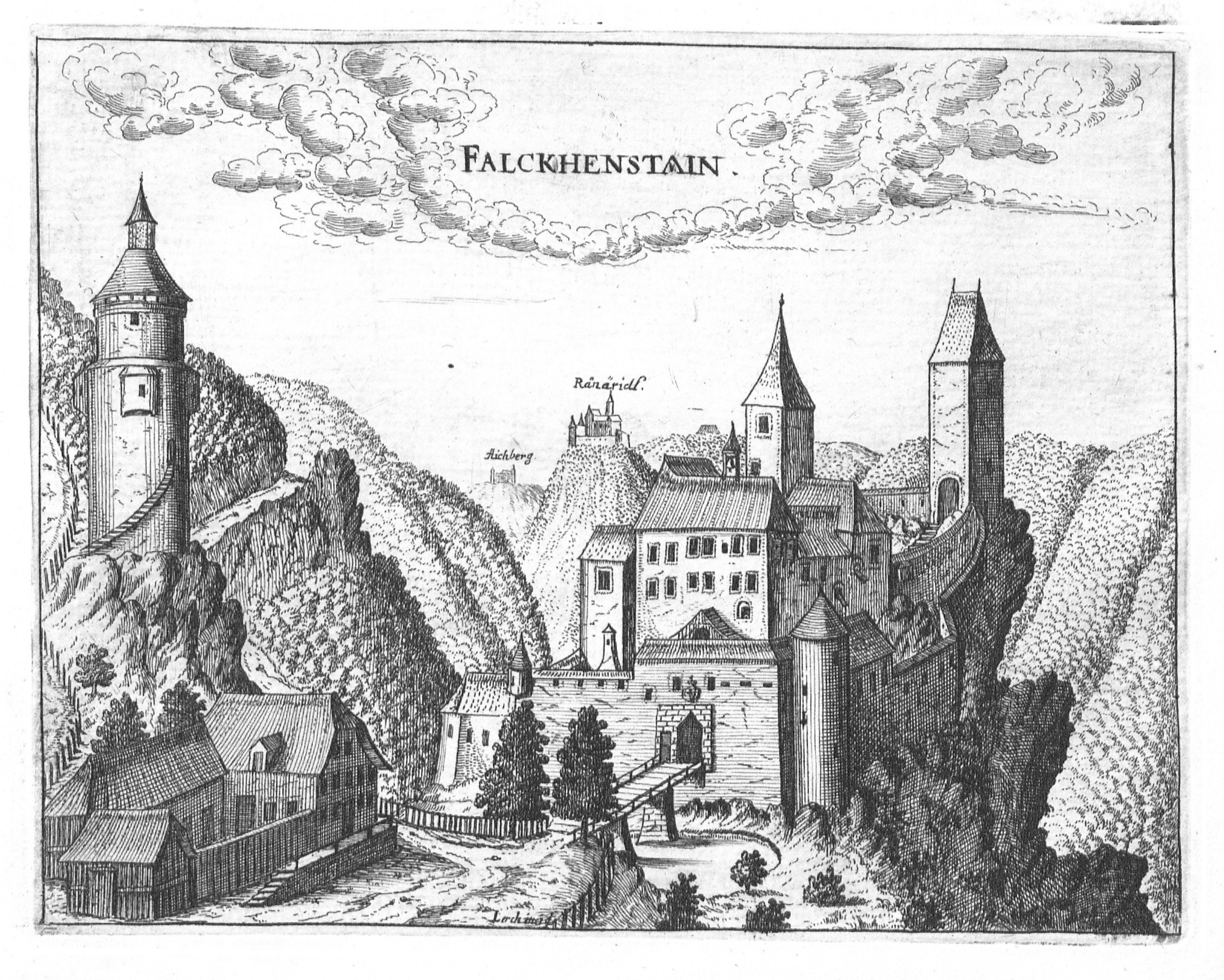 Engraving, view of Falkenstein castle, Upper Austria